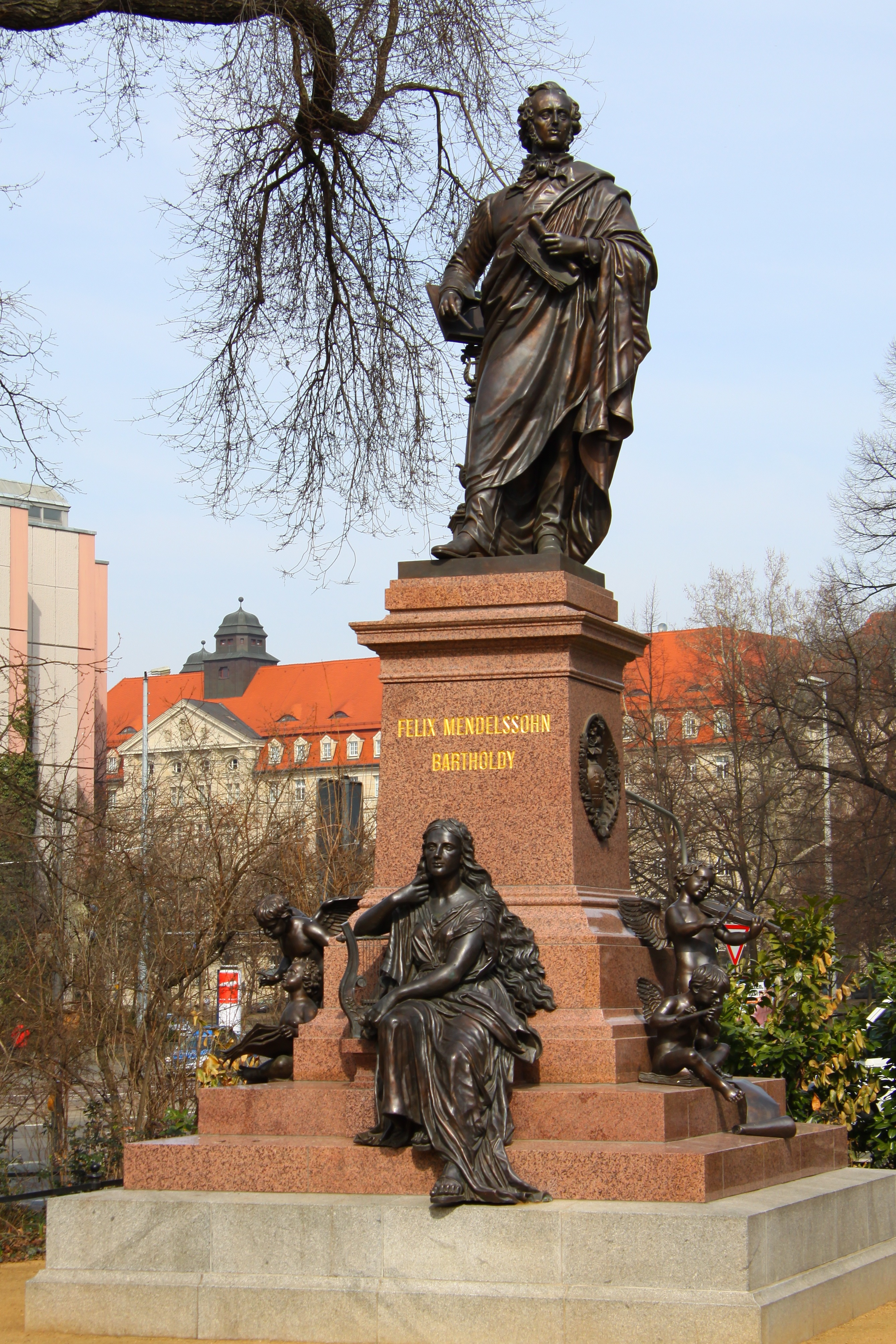 Statue of Mendelssohn-Bartholdy near Thomaskirche, Leipzig.